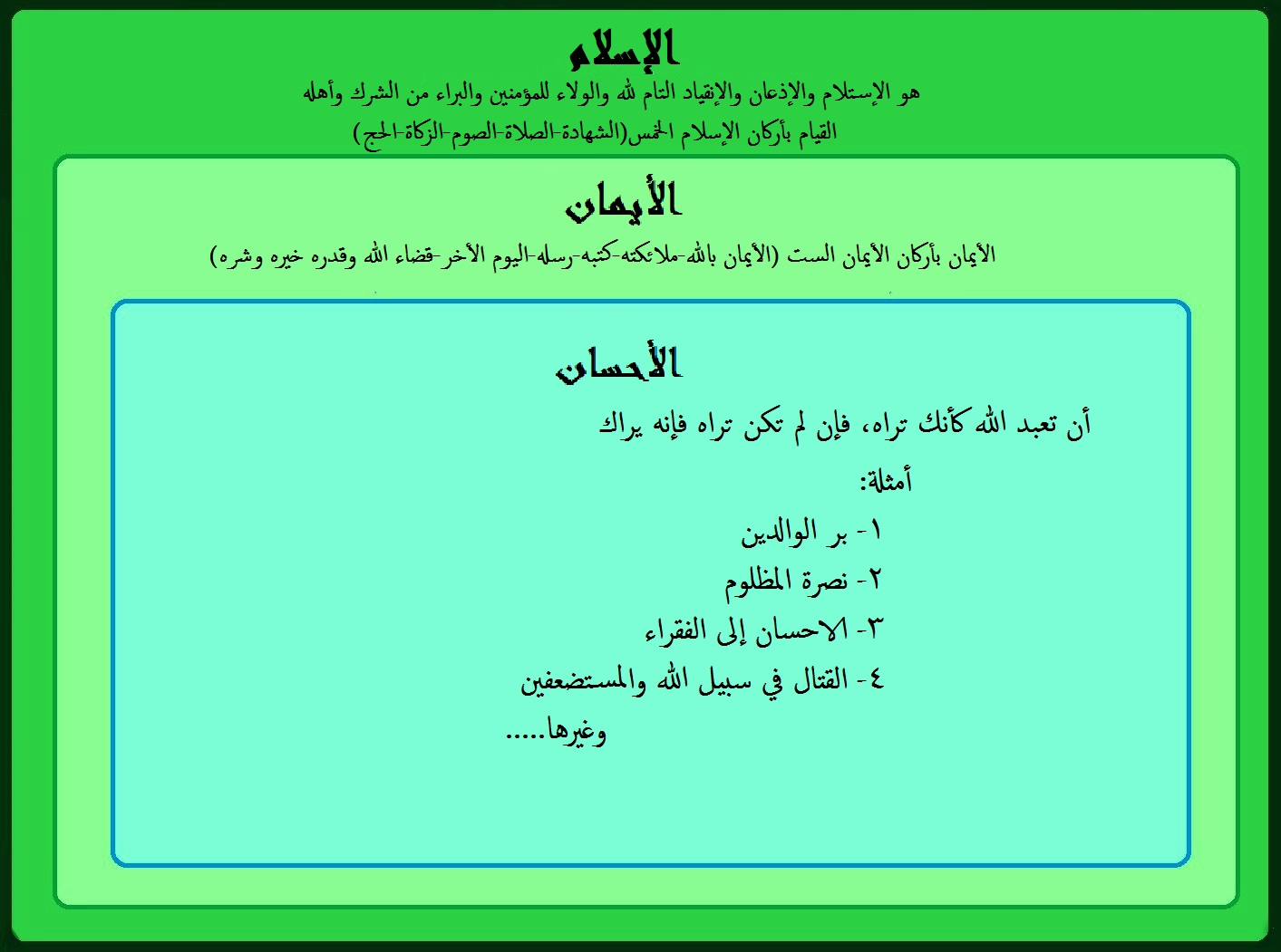 The three dimensions of Islam(by Arabic)